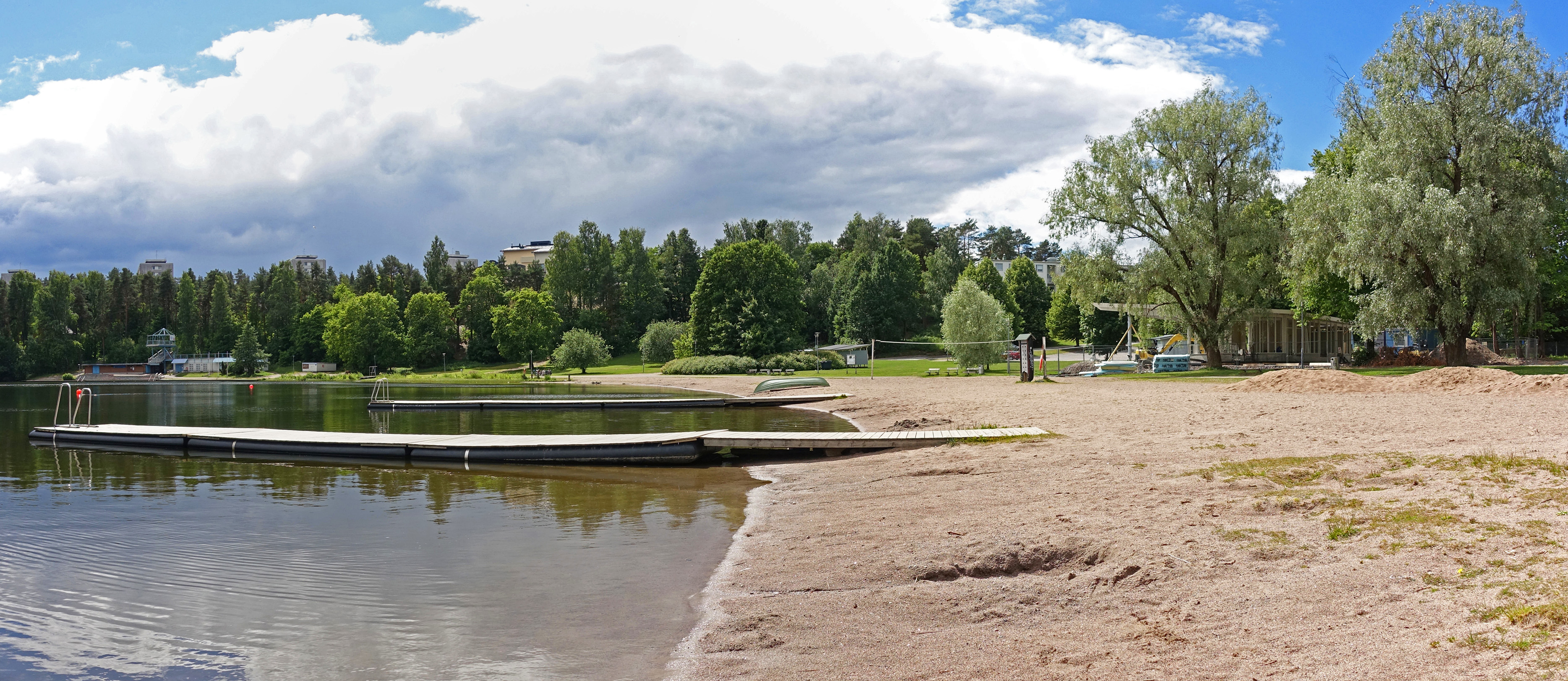 Möysä beach, Lahti.